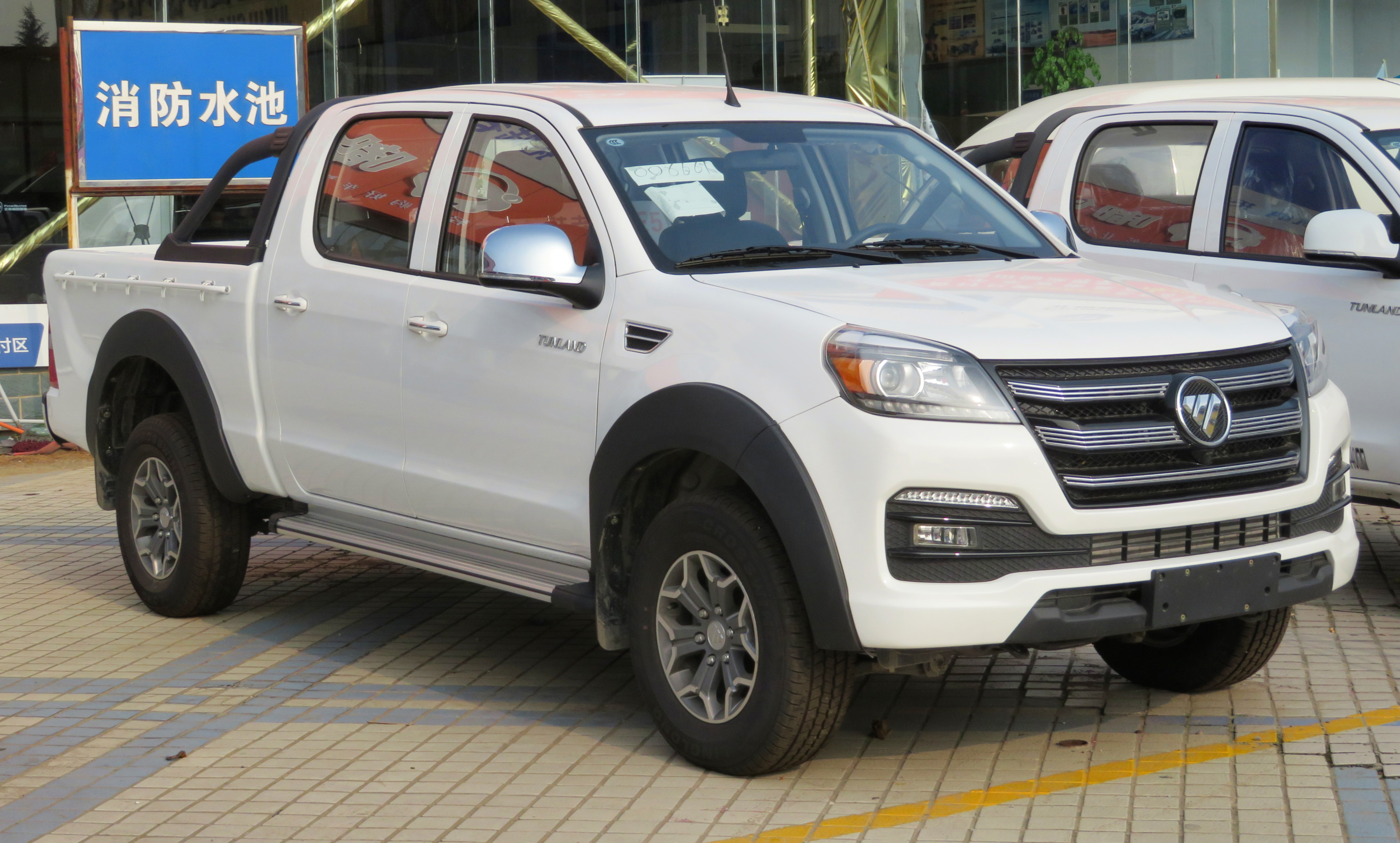 A 2018 Beiqi-Foton Tunland (拓陆者) E5 photographed at a dealership in Luoyang, Henan province, China